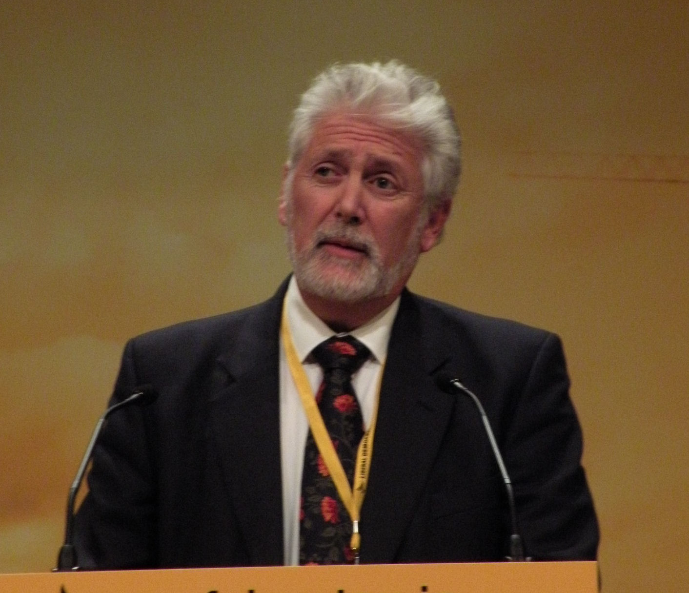 Paul Strasburger, Baron Strasburger addressing the 2012 Liberal Democrats autumn conference in the Brighton Centre